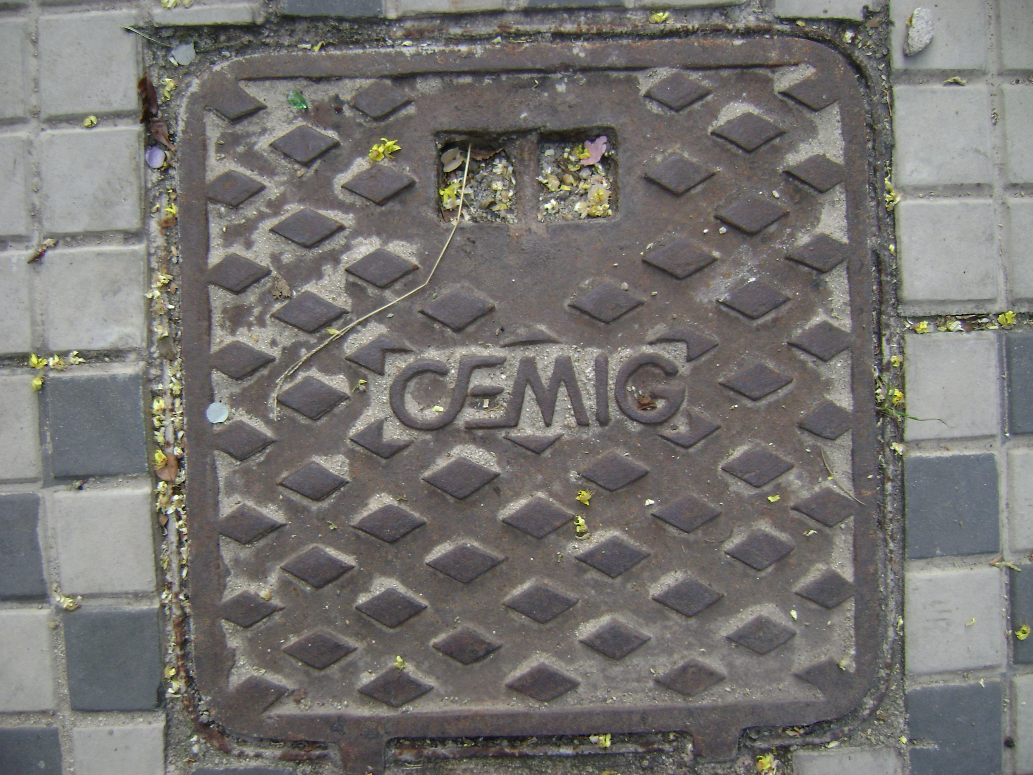 Bueiro da Cemig, em Belo Horizonte.